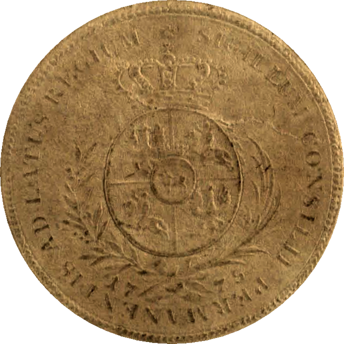 Seal of the Permanent Council